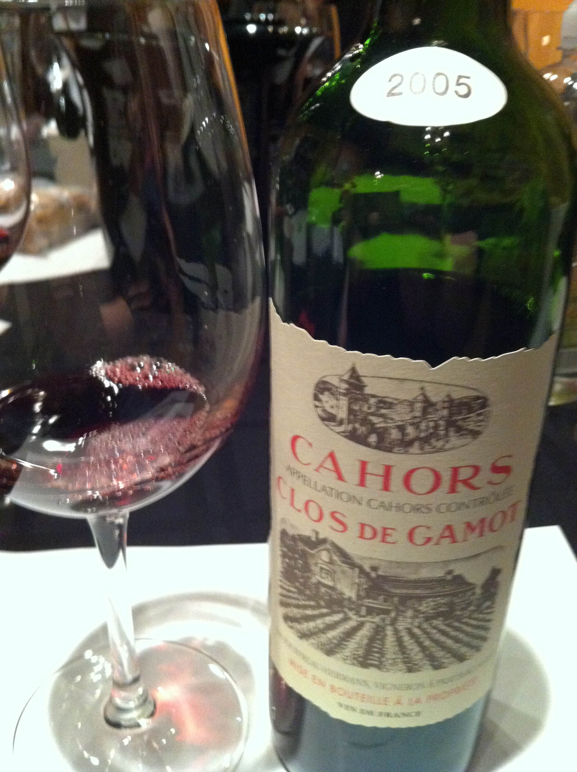 French wine made from the Malbec grape in the Cahors wine region of southwest France.